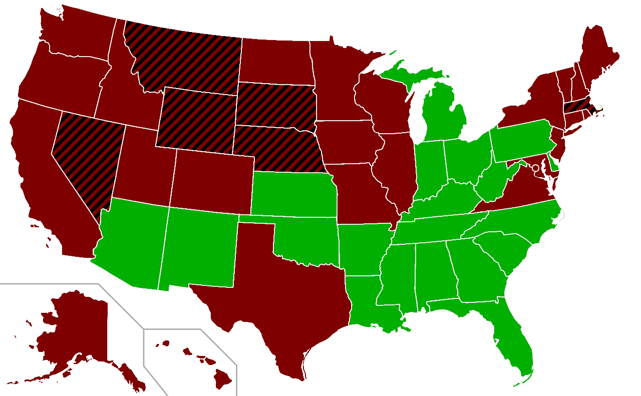 Map of US states requiring front license plates for passenger vehicles as of July 2020.